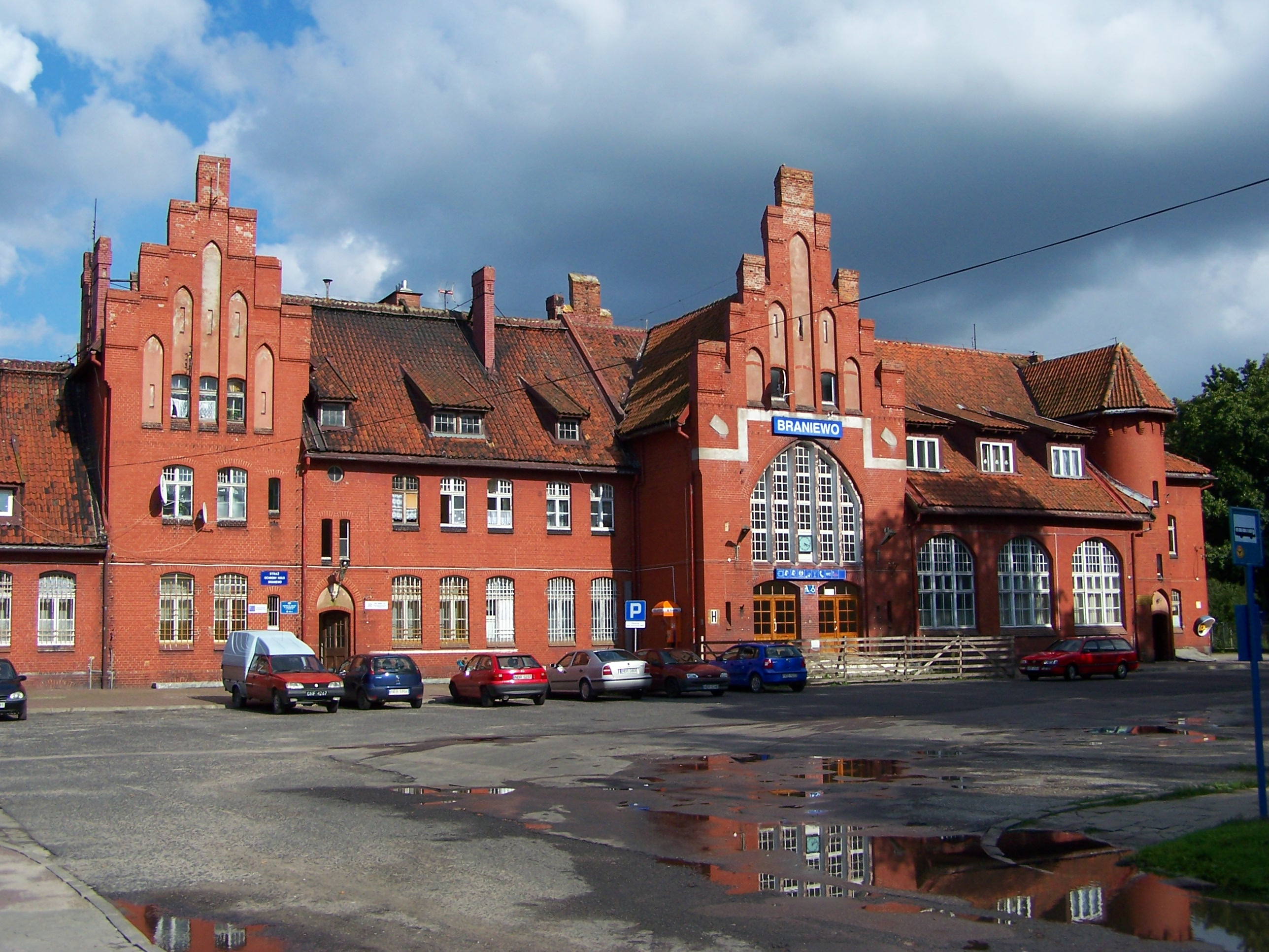 Train station in Braniewo (Poland).